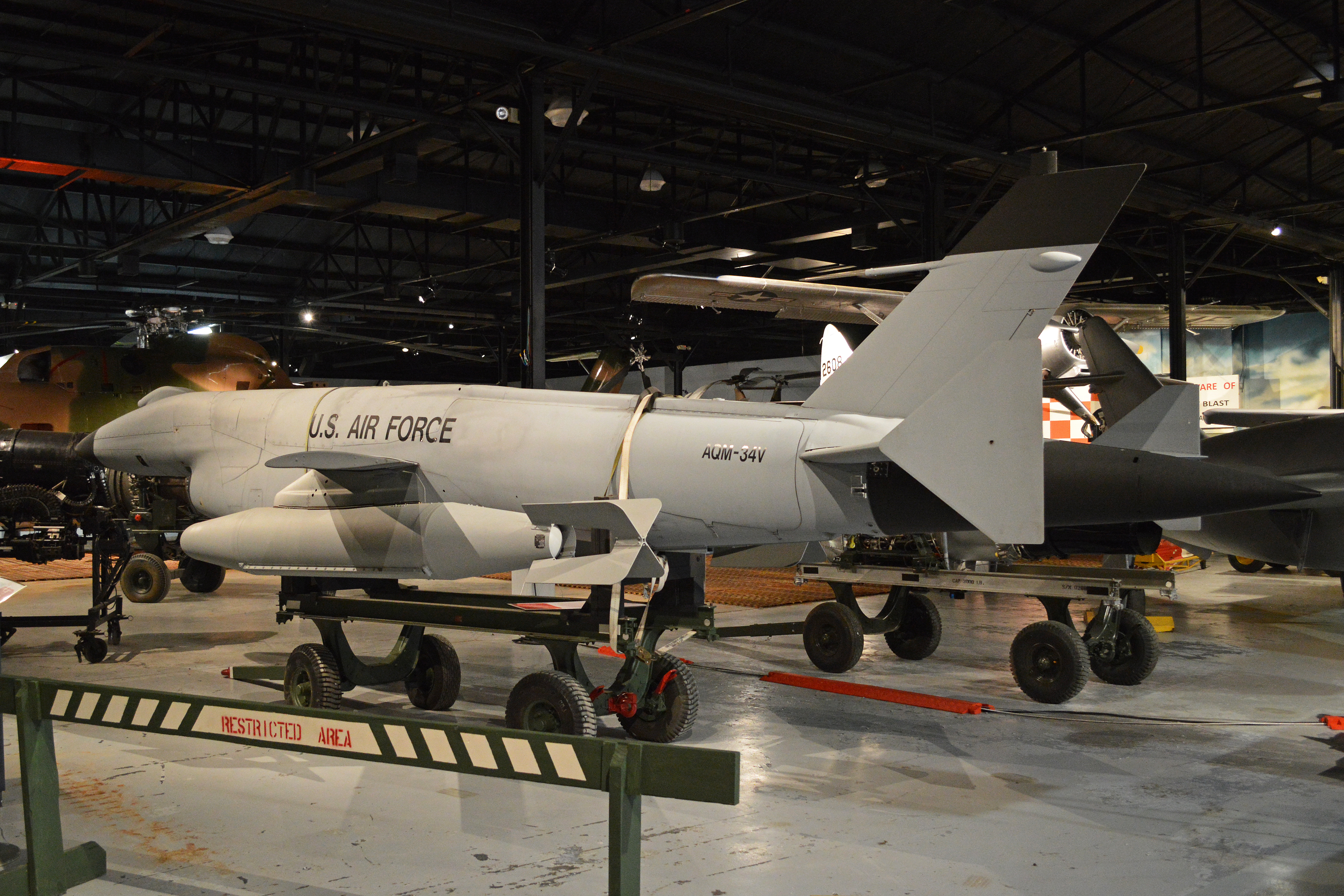 The AQM-34V, electronic countermeasures drone was developed from the BQM-34A jet-powered, subsonic target drone first produced in 1960. It was one of a series of remotely piloted vehicles (RPV) used for combat electronic countermeasures in Southeast Asia. In 1967, the Air Force initiated the "Combat Angle" program to modify AQM-34Gs for pre-strike electronic countermeasures (ECM) missions, because too many manned ECM aircraft were lost over North Vietnam. However, with the bombing halt in November 1968, the pre-strike ECM capability was no longer needed, and no modified AQM-34Gs were used operational in that role. "Combat Angle" was revived in 1974, and Teledyne Ryan was awarded a contract to modify surviving AQM-34H/Js to a standardized ECM version designated AQM-34V. The AQM-34V was first flight tested in March 1976. It was launched from a C-130 director aircraft and equipped with active jamming equipment and AN/ALE-2 and -38 chaff dispenser pods. About 60 AQM-34Vs were built Warner Robins Air Logistics Center (WR-ALC) is responsible for program management for all AQM-34 type RPVs in the USAF. The AQM-34V on display was delivered to the USAF in January 1977 and assigned to WR-ALC for storage. It remained in storage until 1984 when it was released to the Museum for display On display in Hangar 1 at the Warner Robins Museum of Aviation. Georgia, USA. 18-4-2013 (The information above is from the museums own website)